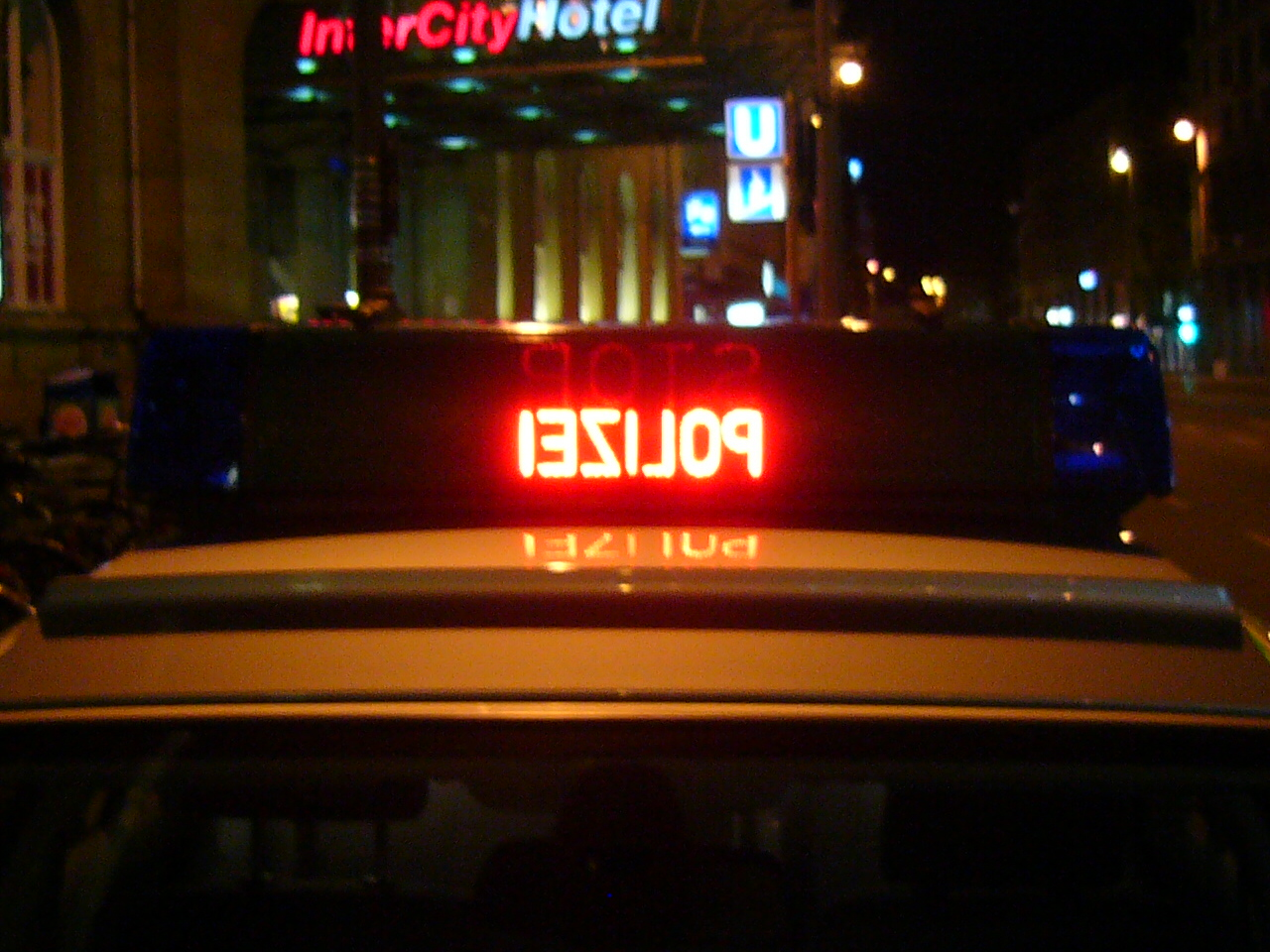 Sign on a German police car with "Stop Polizei" in mirror writing. "POLIZEI" is lit ("IEZILOP").